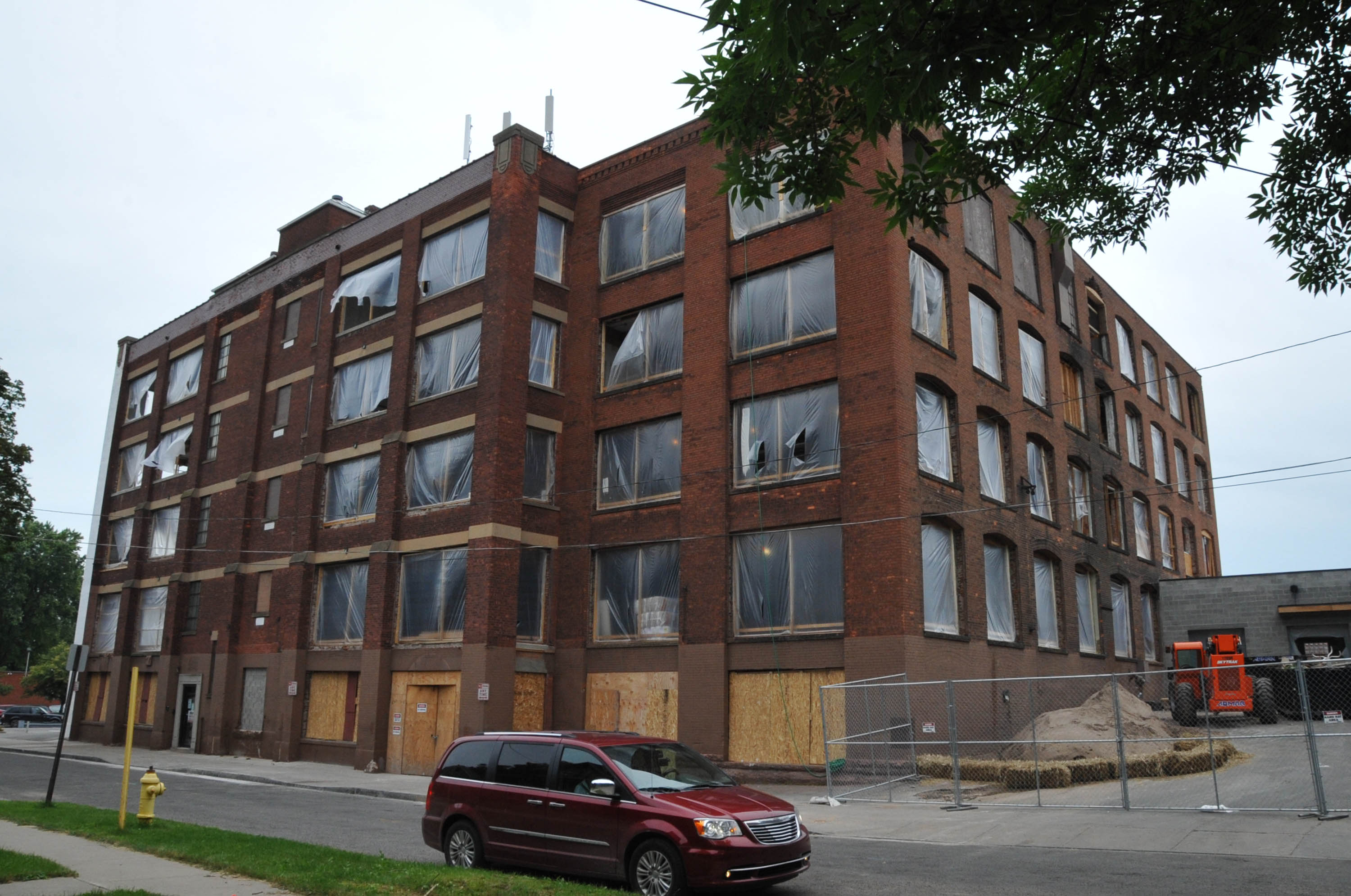 THE SHANTZ BUTTON FACTORY IS ONE OF ONLY TWO SURVIVING EARLY TWENTIETH CENTURY BUTTON MANUFACTURING PLANTS IN ROCHESTER. THE FACTORYS FOUNDER, MOSES B. SHANTZ, BECAME AN IMPORTANT FIGURE IN THE RISE OF THE IVORY BUTTON BUSINESS, WHICH DOMINATED THE INDUSTRY IN THE LATE NINETEENTH AND EARLY TWENTIETH CENTURY BOTH IN ROCHESTER AND NATIONALLY.